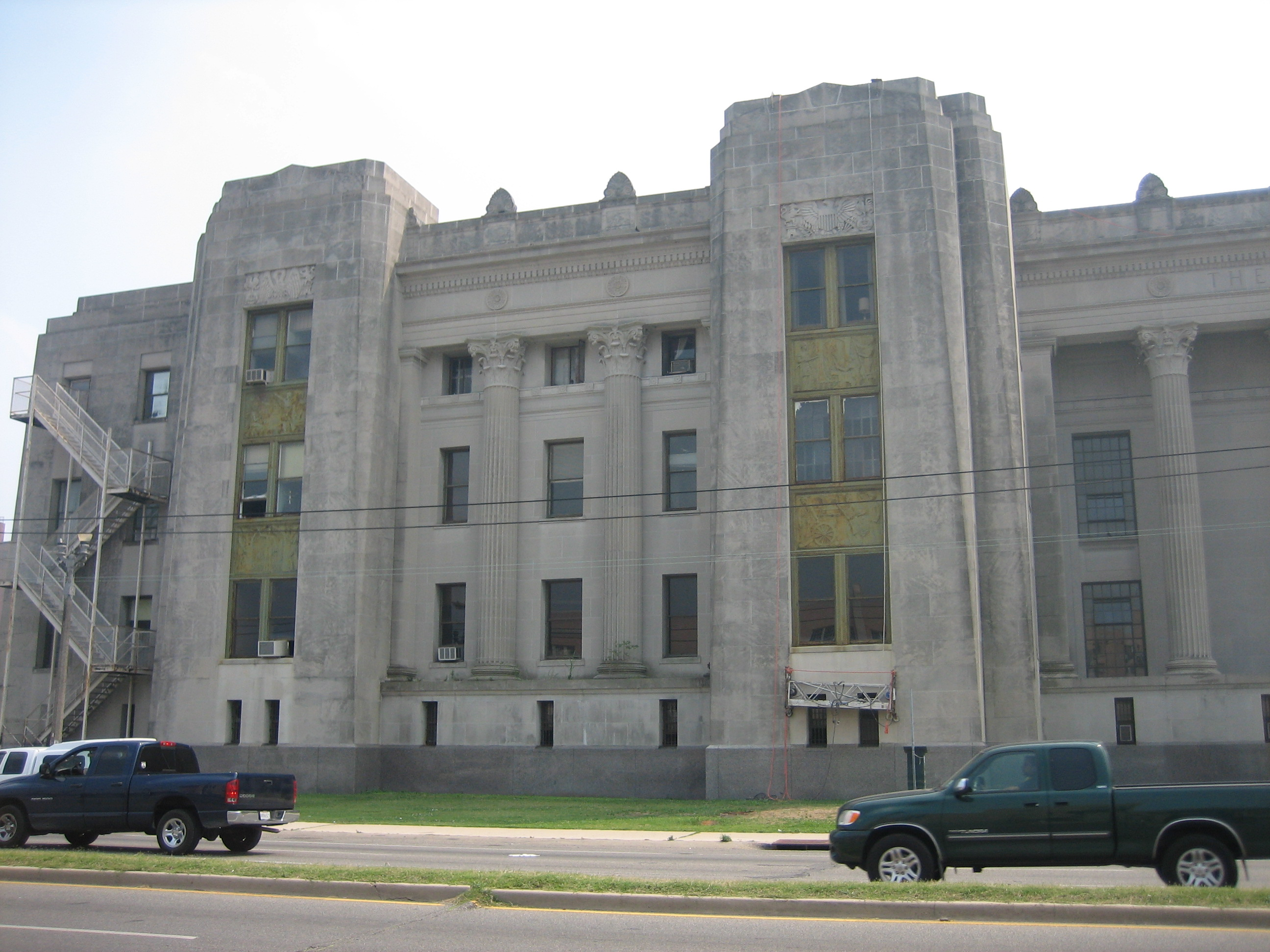 New Orleans, Louisiana: Court house at intersection of Tulane & Broad streets. Orleans Parish Prison is behind this building.